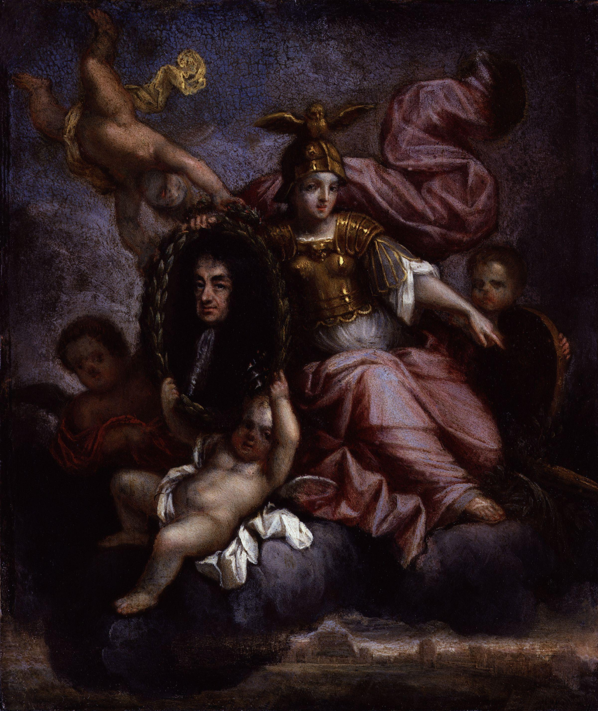 King Charles II